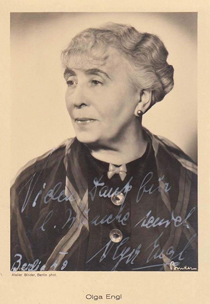 Portrait of Austrian actress Olga Enga (1871–1946) by Alexander Binder